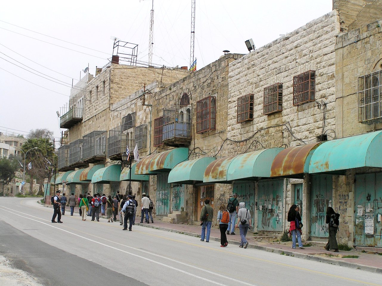 Shuhada Street (King David Street), Hebron.